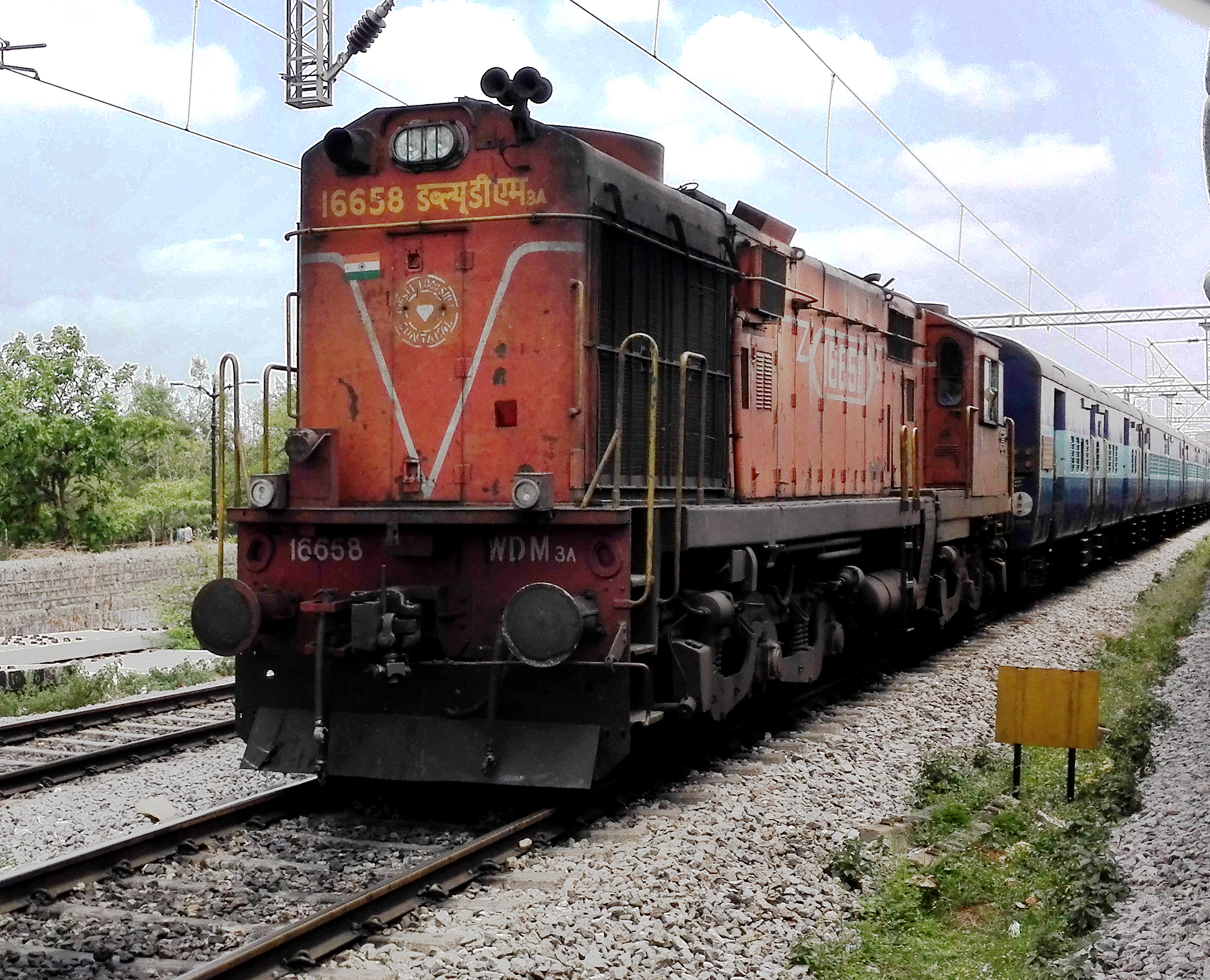 A WDM3A Loco with Kagazhnagar Intercity Express at Necklace Road MMTS station Loco road number: #16658 Loco class: WDM 3A Max. power: 3100HP Max. speed: 120Kmph Specialized in: Passenger traffic Loco shed: Guntakal (GTL)